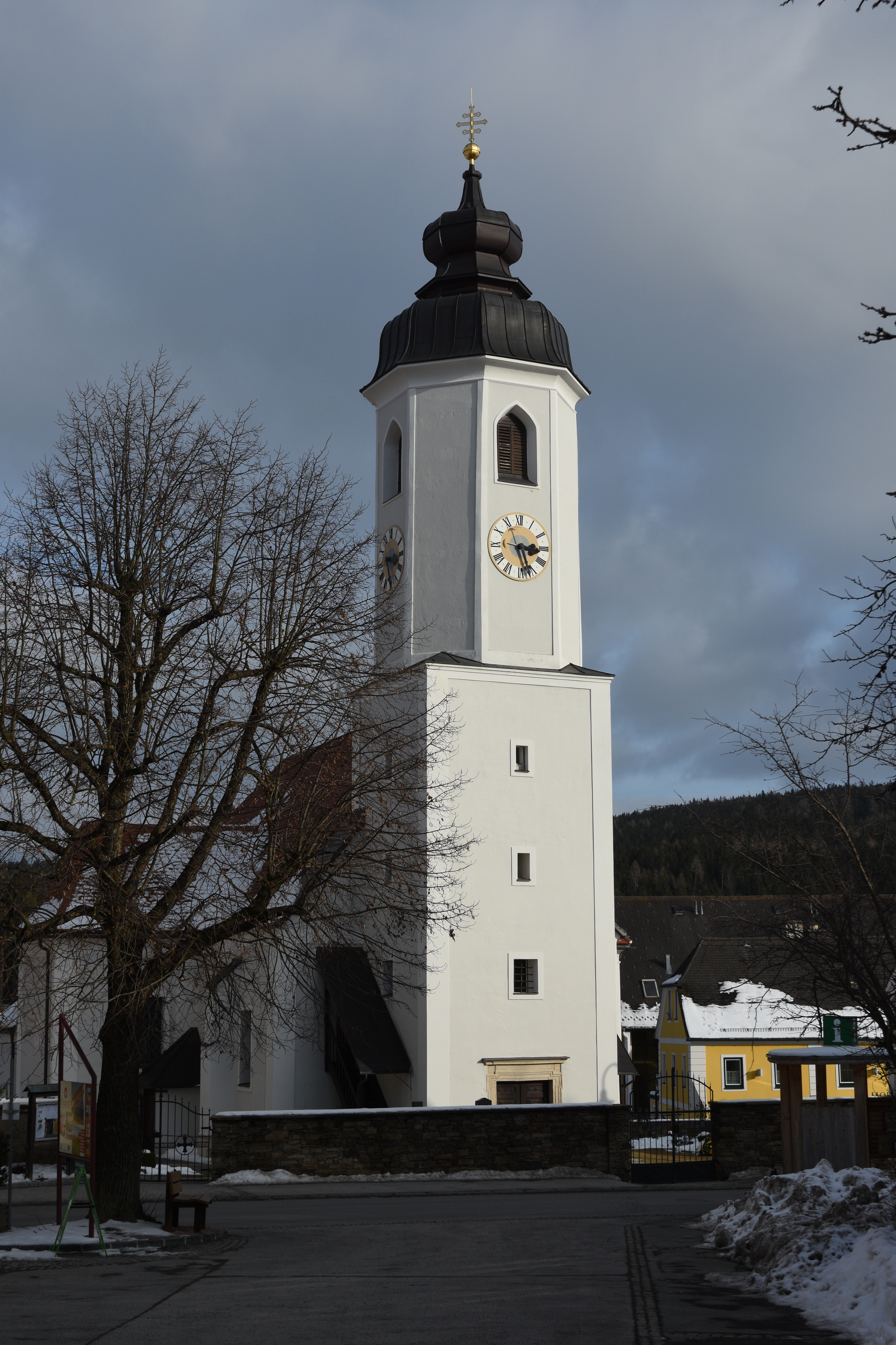 Saint Cunigunde of Luxembourg Church (Miesenbach bei Birkfeld)